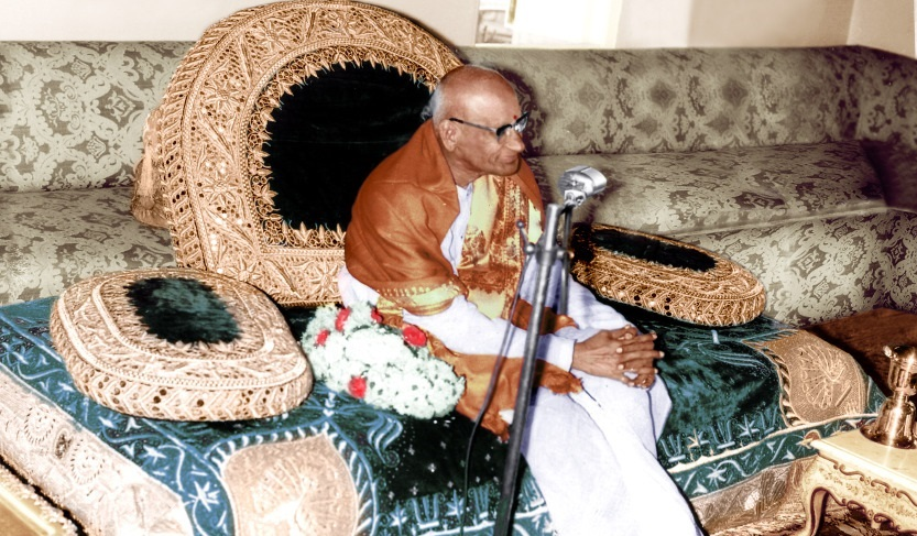 Kavisamrat Viswanadha Satyanarayana